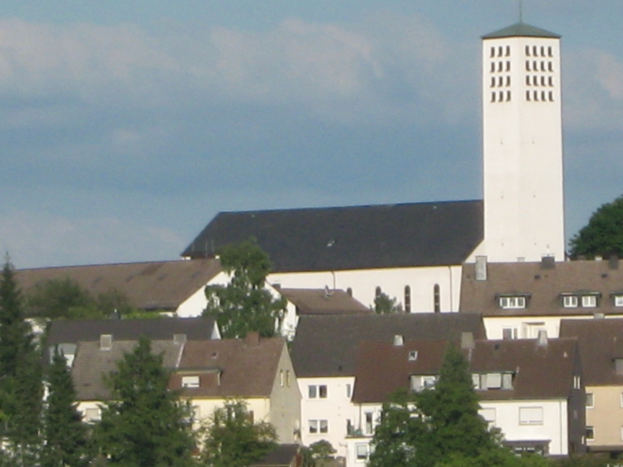 View of the Church Maria Königin from Lüdenscheid-Buckesfeld.